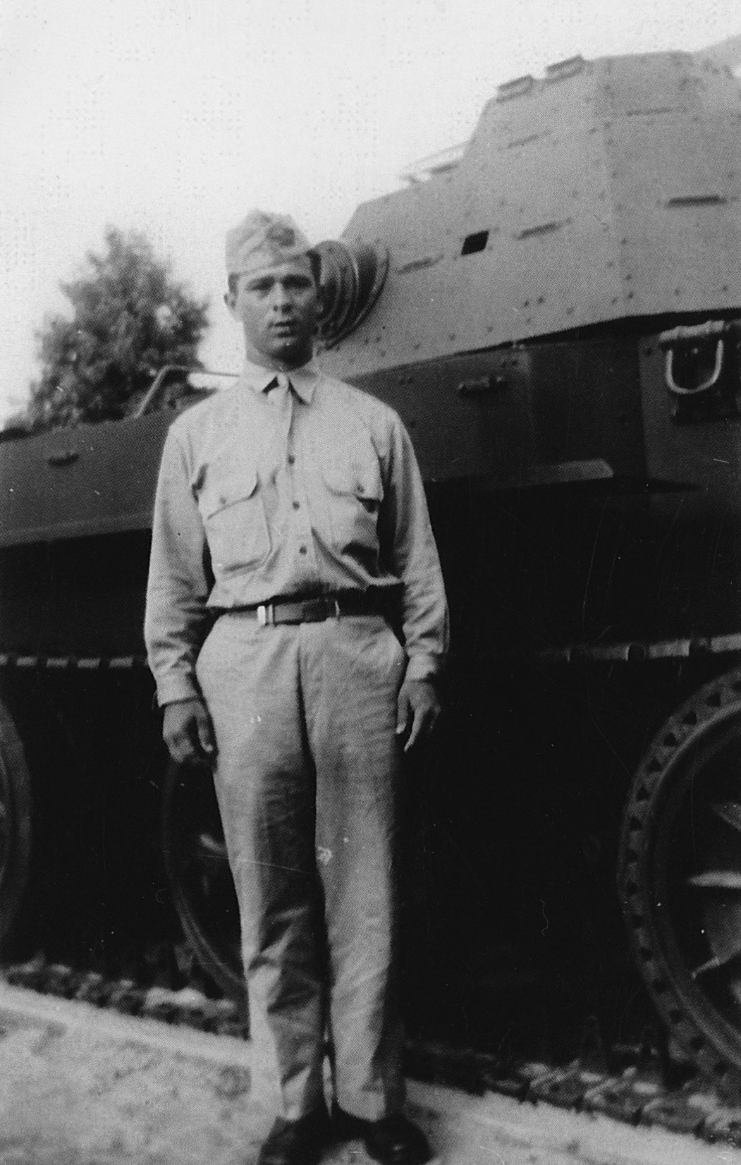 Photo of PVT Joseph Burlazzi sometime after Basic Training at Fort Devens MA